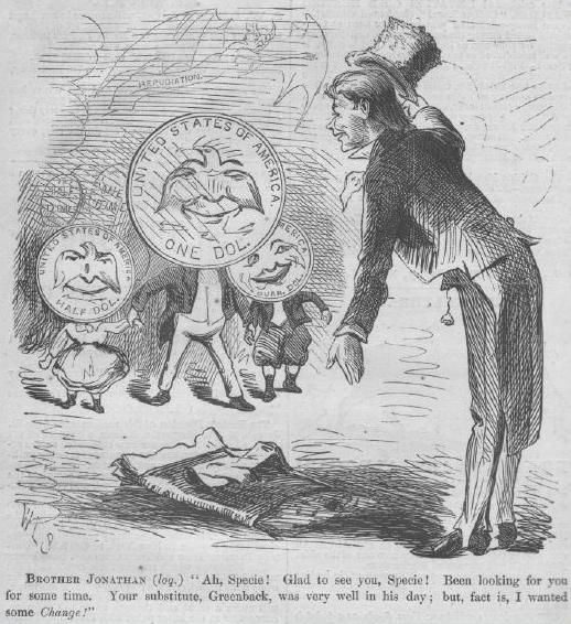 1870 political cartoon from Harper's Weekly. Brother Johnathan welcomes back hard currency (after the "Greenback" banknote bills of the American Civil War era)